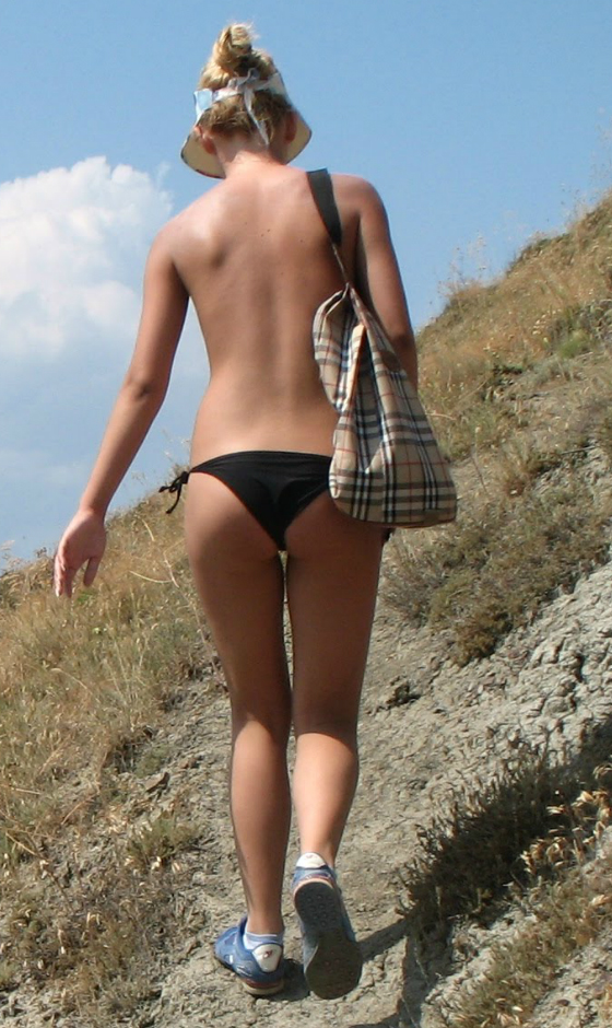 girl seem from behind.